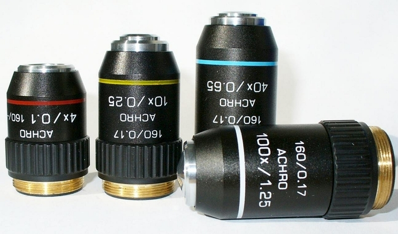 Microscope objectives.